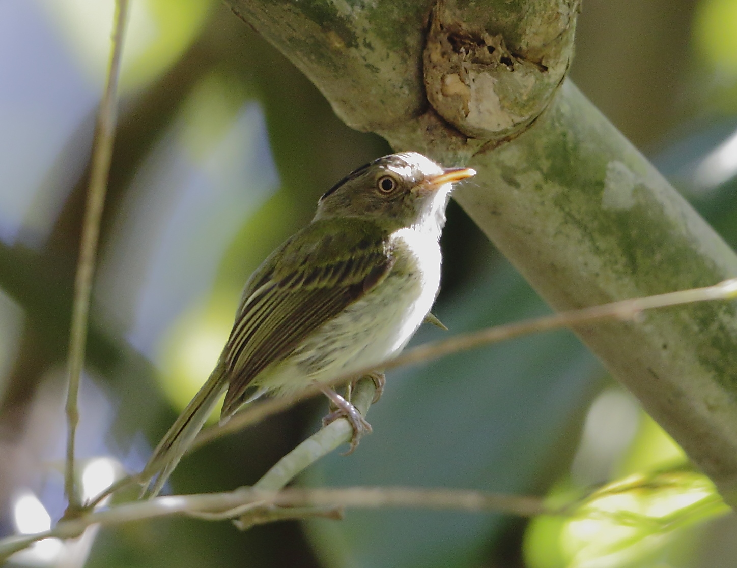 Long-crested pygmy-tyrant at Rio Branco - Acre - Brazil